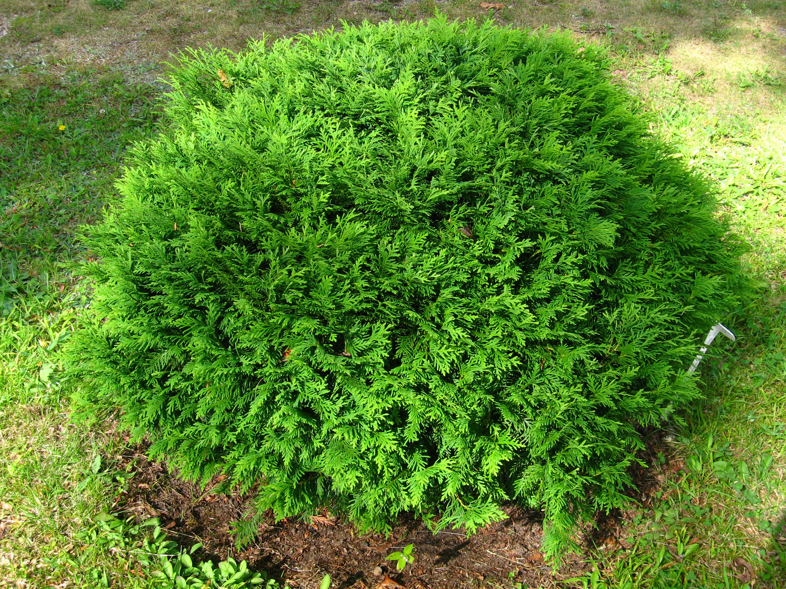 Northern Whitecedar var. Hoseri (Thuja occidentalis 'Hoseri')